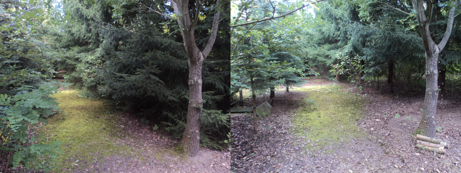 Understory, comparsion in two pictures (before and after)